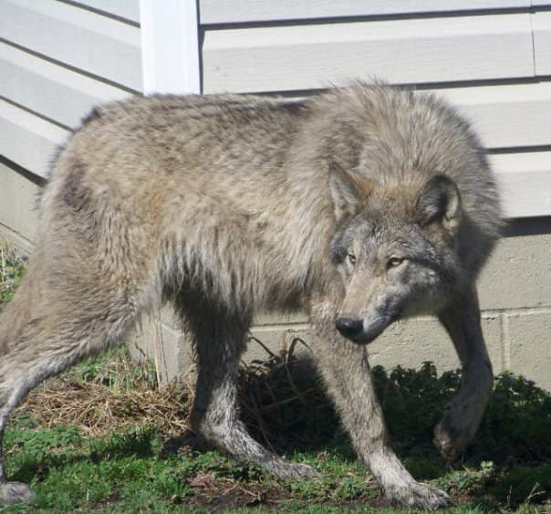 wolfdog